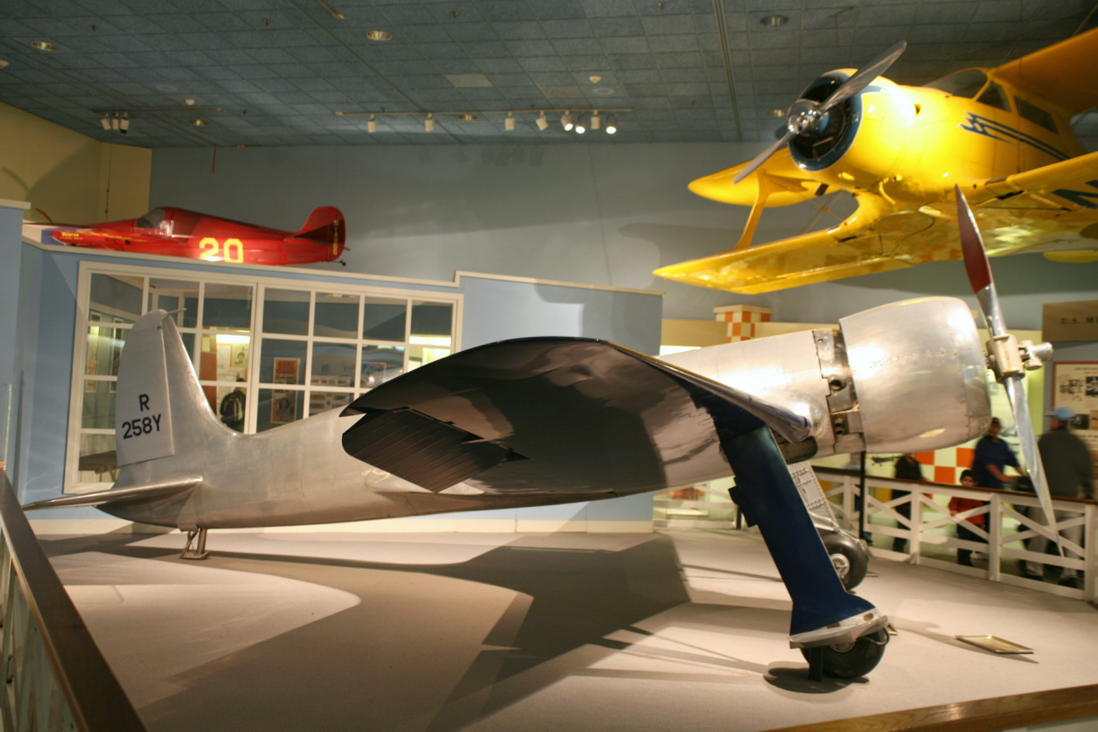 The Hughes H-1 racer, designed by Howard Hughes and Richard Palmer and built by Glenn Odekirk, was developed to be the fastest landplane in the world. On September 13, 1935, Hughes achieved this design goal by flying the H-1 to a new world speed record of 567 kilometers (352 miles) per hour at Santa Ana, California. Also known as the Hughes 1B, the H-1 was designed with two sets of wings: a short set with a span of 7.6 meters (25 feet) for speed record flight, and a long set with a span of 9.2 meters (31 feet, 9 inches) for transcontinental flight. The aircraft as it is exhibited here is equipped with the long set.